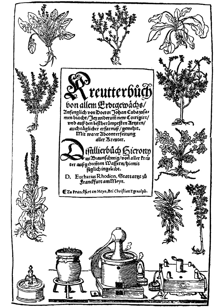 Kreutterbůch by Eucharius Rhodion (Rößlin), Frankfurt am Main 1533 [first edition], printed by Christian Egenolph, title page